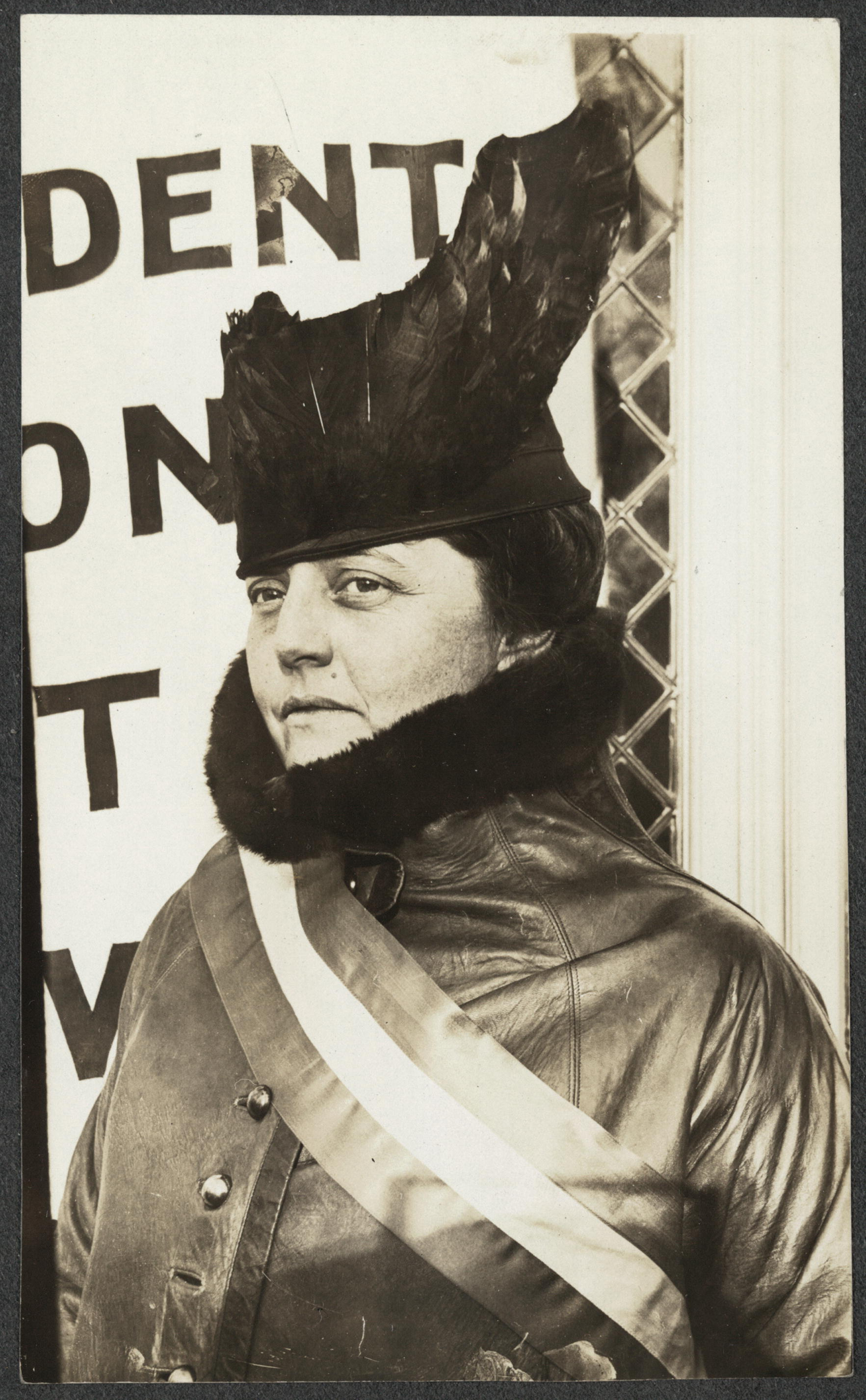 Allison Turnbull Hopkins of Morristown, N.J., was New Jersey state chairman of the NWP and a member of the NWP executive committee in 1917, as well as president of various women's clubs. She was arrested July 14, 1917, for picketing, sentenced to 60 days in Occoquan Workhouse, and pardoned by President Wilson after three days. Source: Doris Stevens, Jailed for Freedom (New York: Boni and Liveright, 1920), 361-62. Summary: Informal portrait, head and chest, Alison T. Hopkins, wearing leather coat with fur trim, feathered hat, and tricolor suffrage sash, standing outside in front of suffrage banner at fence (partially obscured banner reading "Mr. President How Long Must Women Wait for Liberty?").